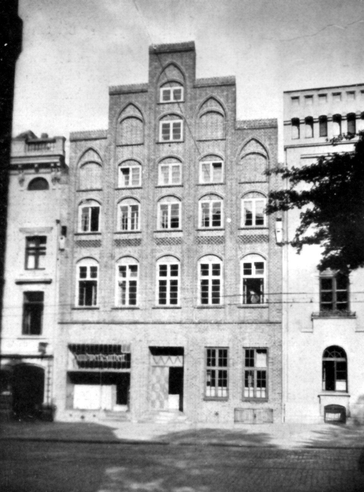 The house Breite Straße No. 12 in Lübeck; destroyed in 1942